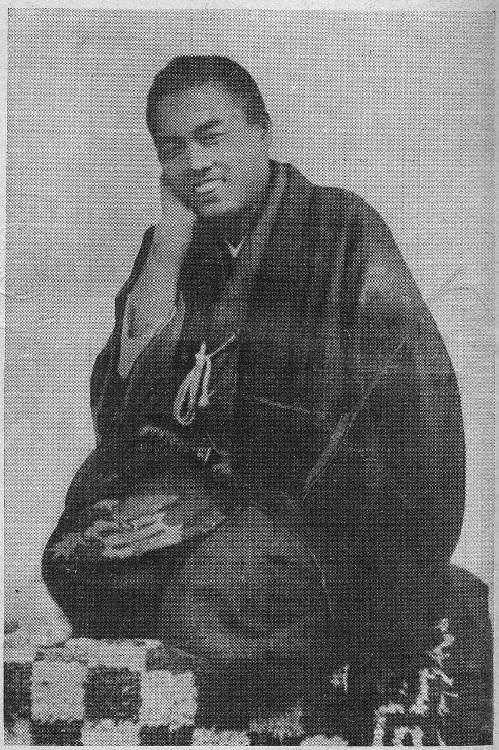 Portrait of Nakaoka Shintaro (中岡慎太郎, 1838 – 1867)